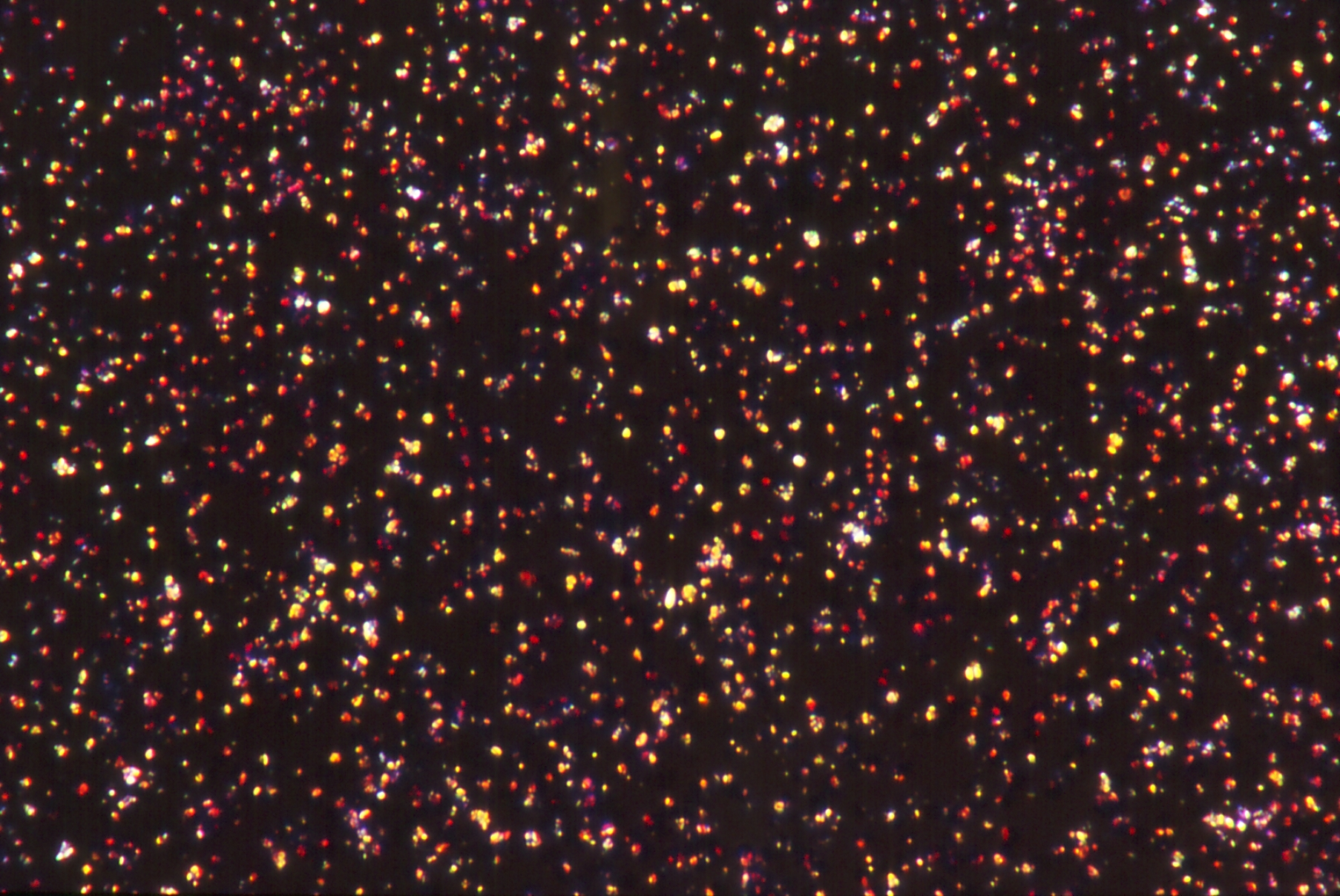 Ernst Hempelmann, Birefringent Plasmodium falciparum hemozoin